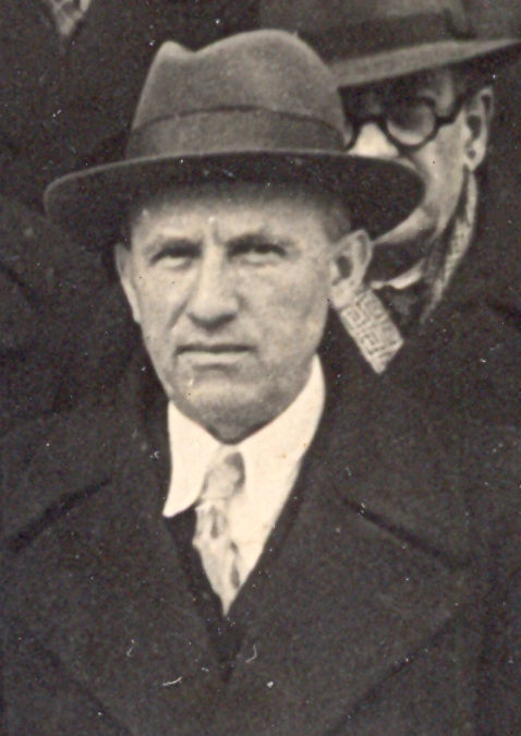 Bulgarian poet and literary critic Emanuil Popdimitrov (1885-1943)